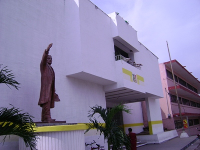 Bronze metal sculpture of General Juan Alvarez in main square of Atoyac de Alvarez, Guerrero, México